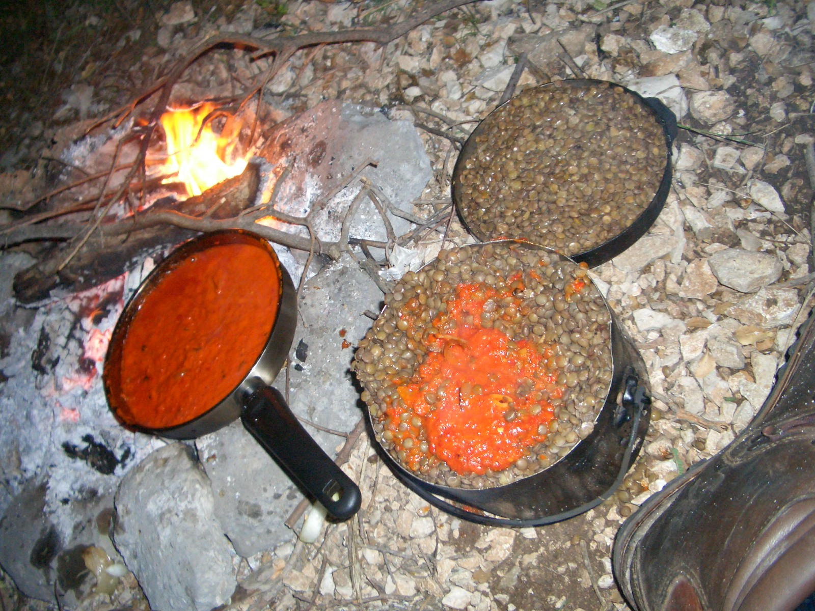 Dinner at a campfire